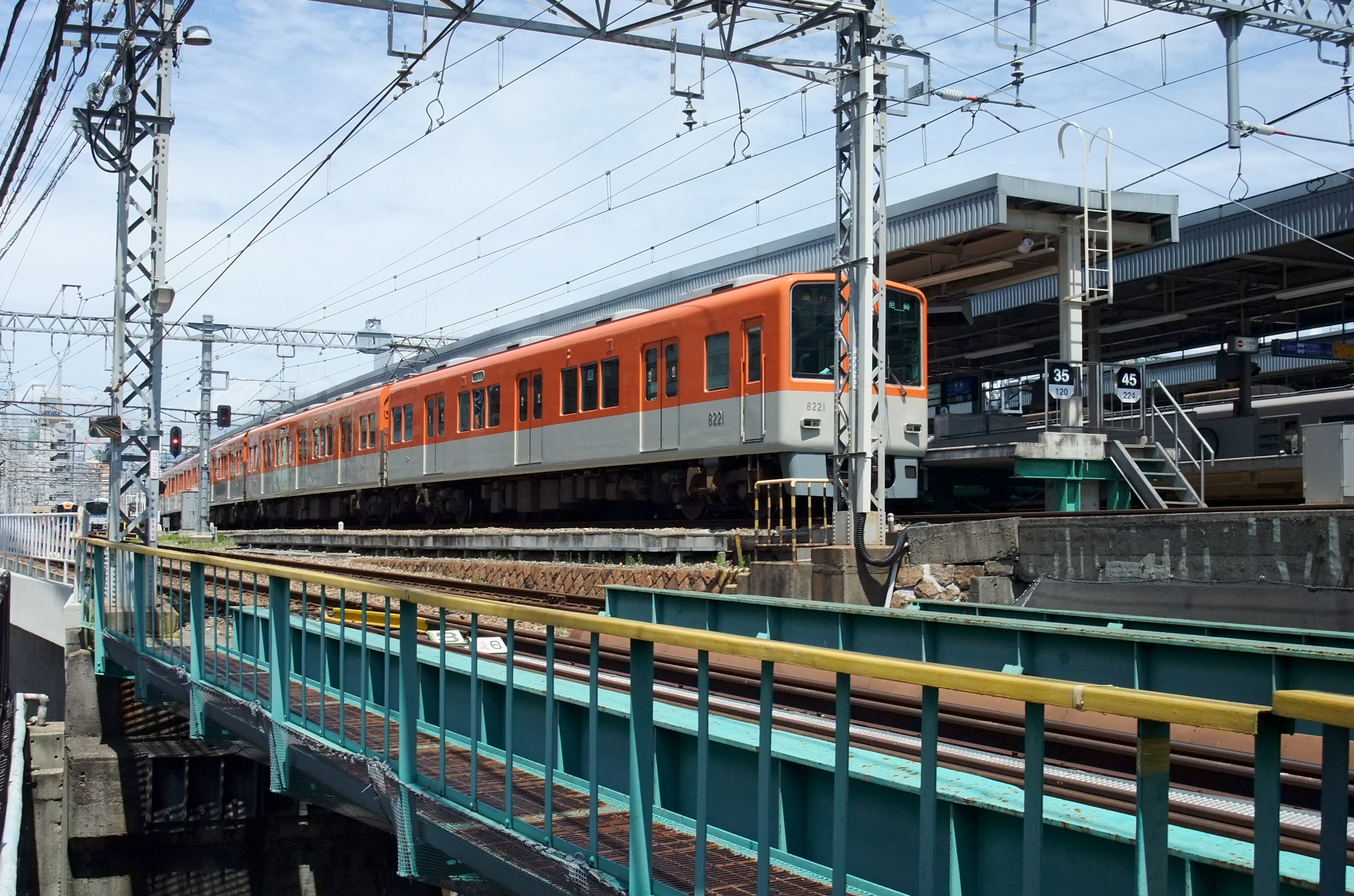 Amagasaki Station (Hanshin) in Amagasaki, Hyogo prefecture, Japan